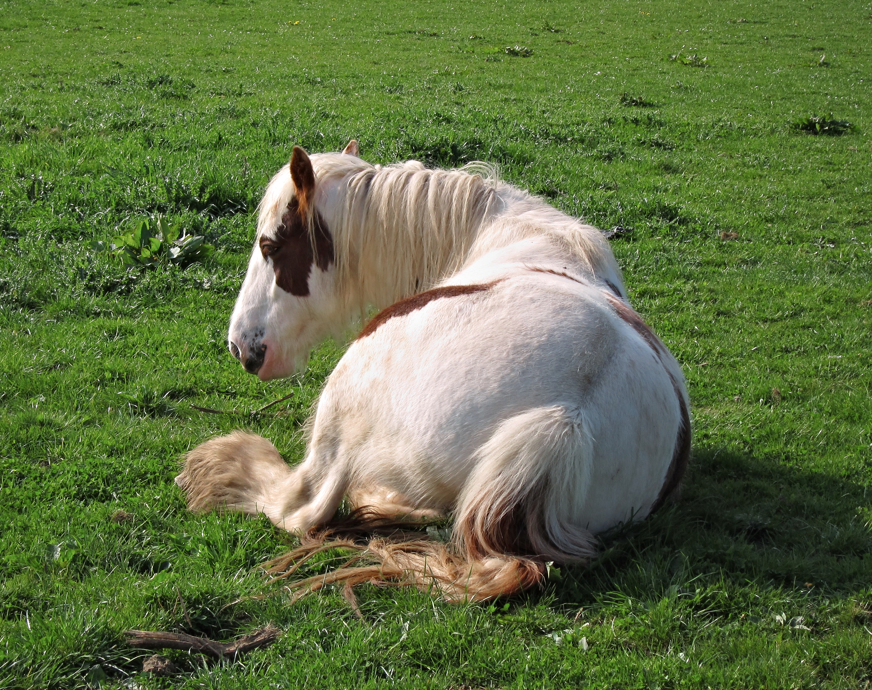 At 5pm this afternoon this lady gave birth to a foal